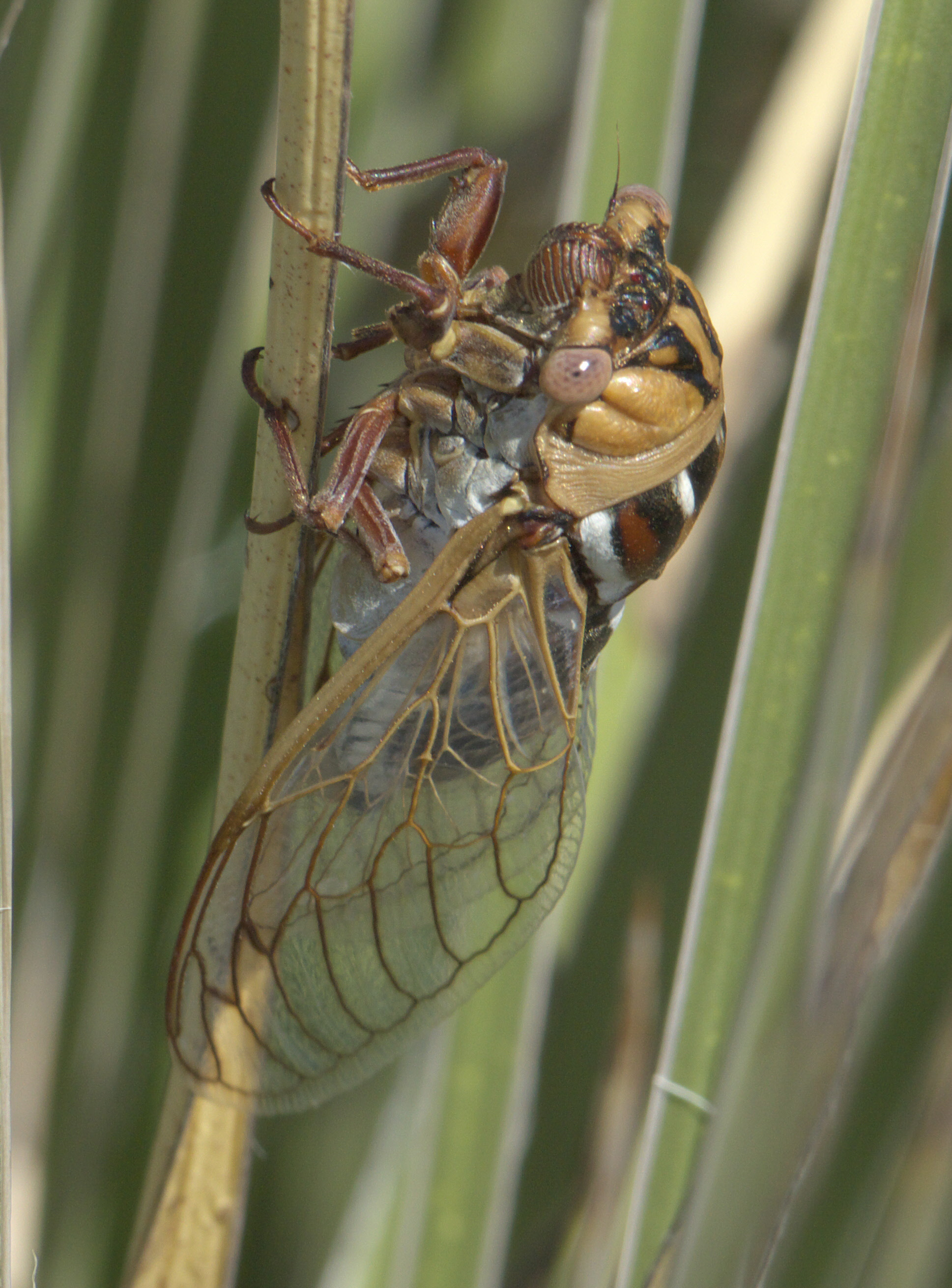 Megatibicen tremulus, Western Bush Cicada" or "Cole's Bush Cicada", ID Confidence: 98"